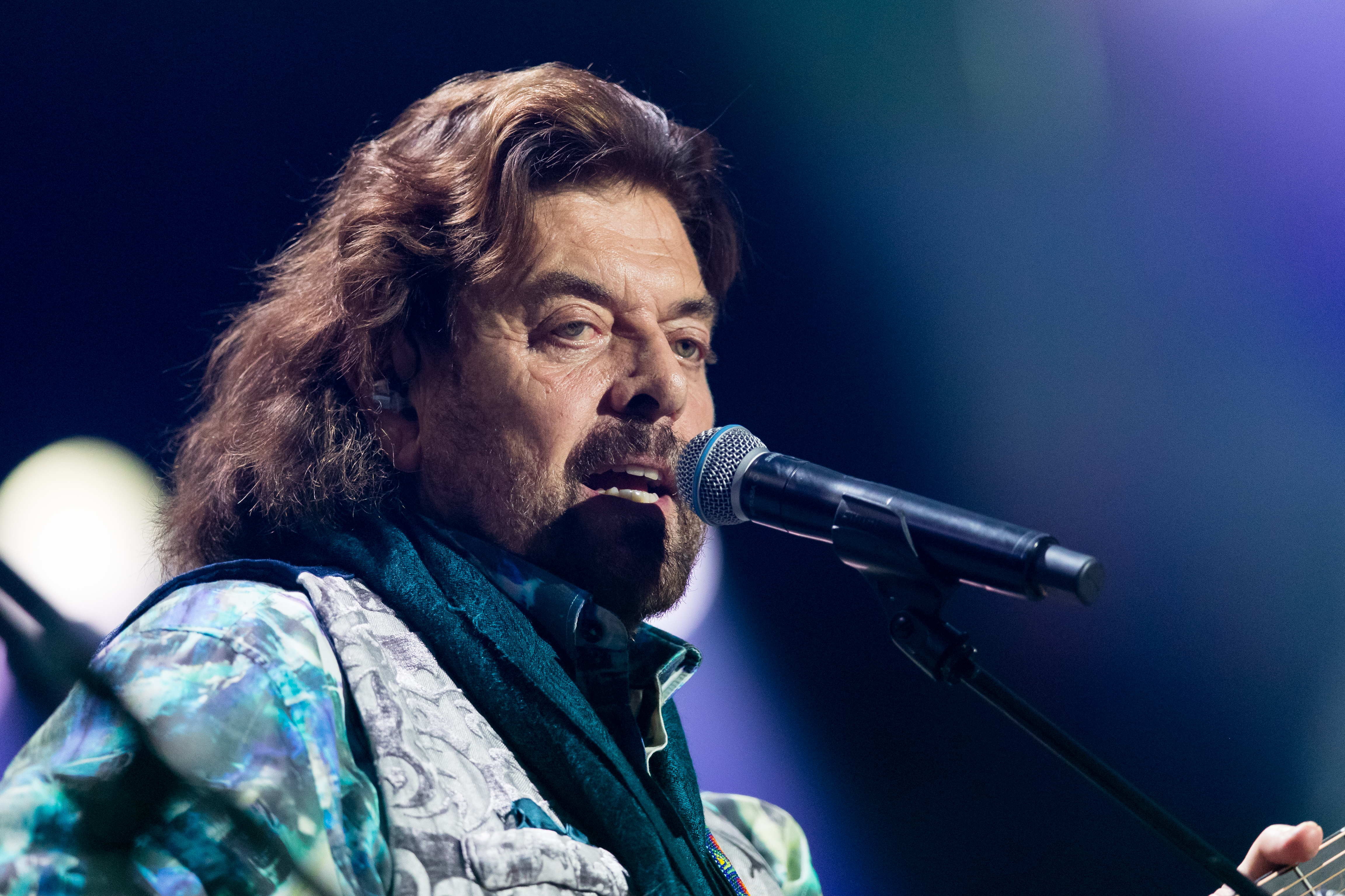 Alan Parsons during Night of the Proms at SAP Arena, Mannheim, Baden-Württemberg, Germany on 2019-11-29, Photo: Sven Mandel